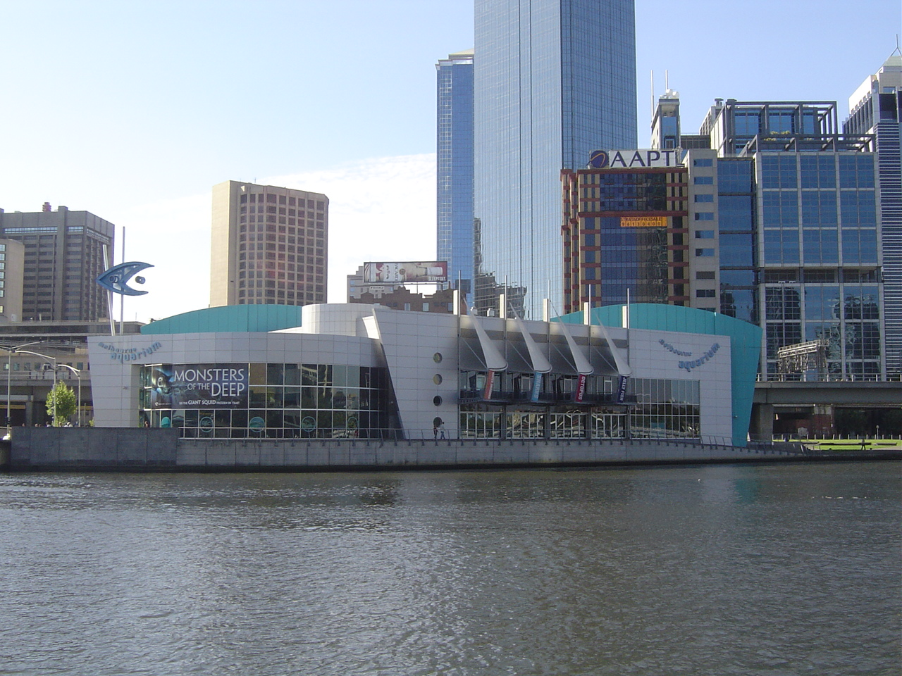 The Melbourne Aquarium viewed from the east.